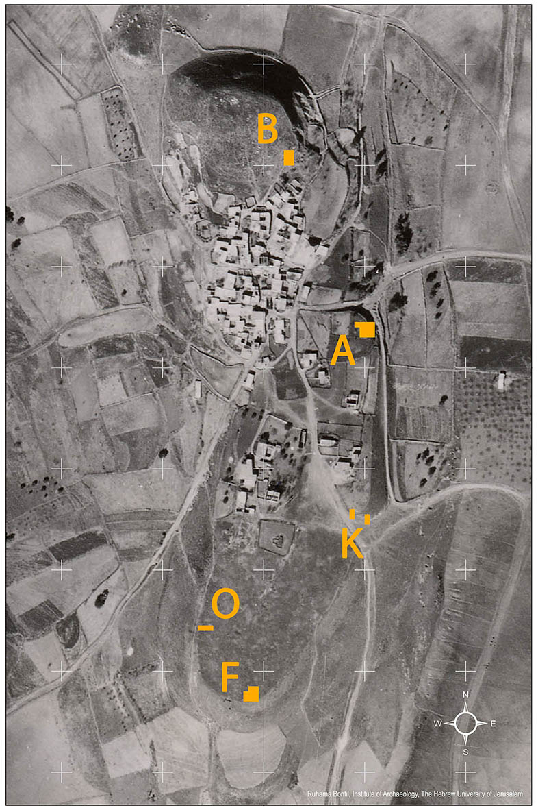 Excavation areas marked on 1945 aerial photo of the tell (Aerial Photographic Archive, Geography Department, Hebrew University of Jerusalem, taken by the Royal Air Force, Section 23, 1945); houses of the Palestinian village Abil el-Qameḥ visible